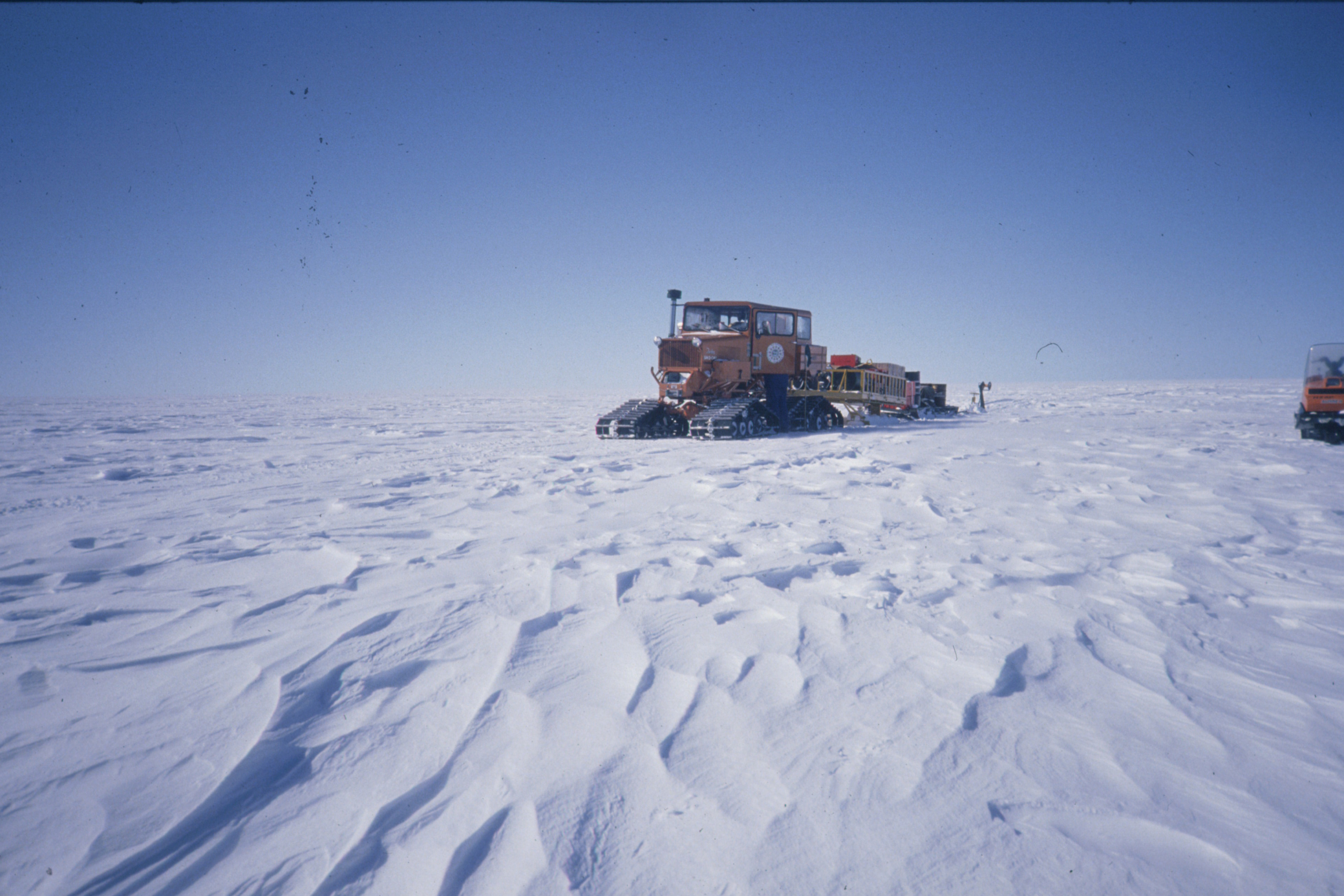 Small sastrugi on the surface of the Antarctic Plateau, with SnoCat vehicle in the distance